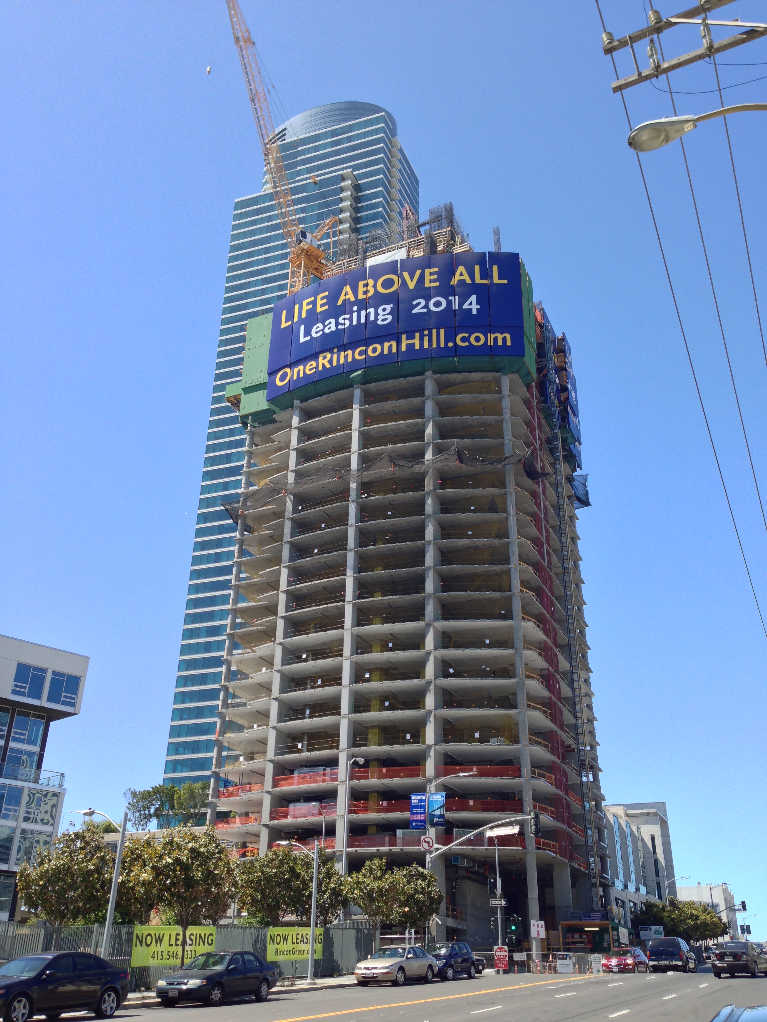 One Rincon Hill, North Tower, under construction on June 16, 2013